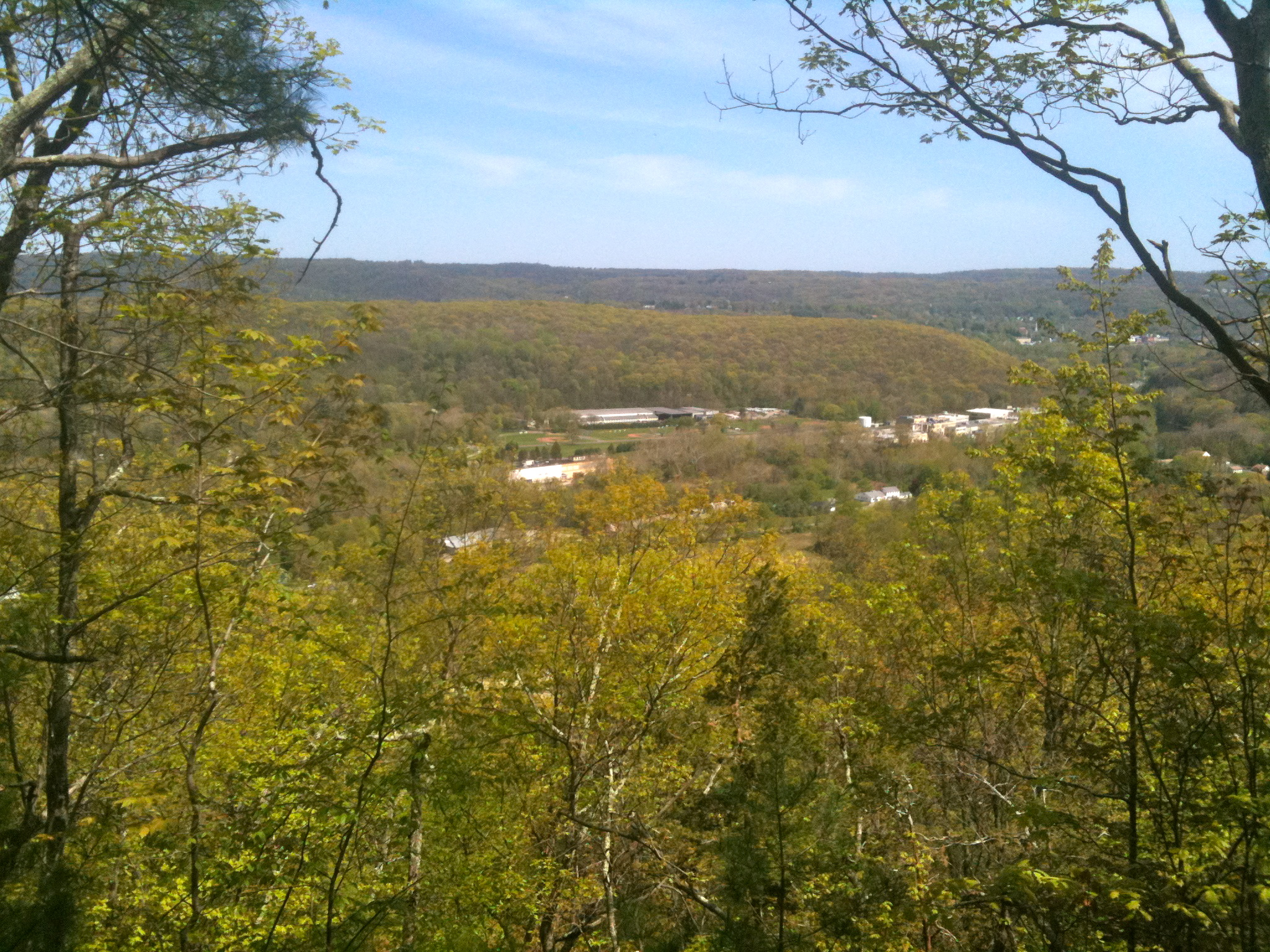 Housatonic Range Blue-Blazed Trail. Blue-Blazed CFPA linear foot path from Candlewood Mountain in New Milford and to Gaylordsville Cemetary in Gaylordsville. Housatonic Range CFPA Blue-Blazed Trail in New Milford. Housatonic Range Trail (AKA Candlewood Mtn Trail). "View" of Housatonic River and Connecticut Route 7 (Kent Rd) from Pine Knob summit.